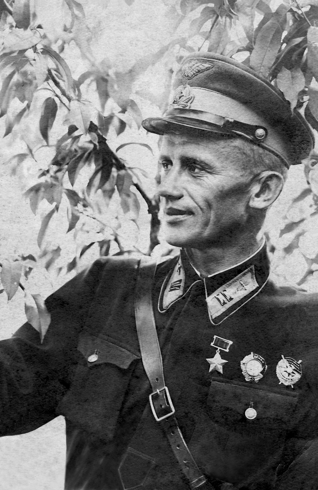 The Hero of the Soviet Union, Major Yakov Ivanovich Antonov